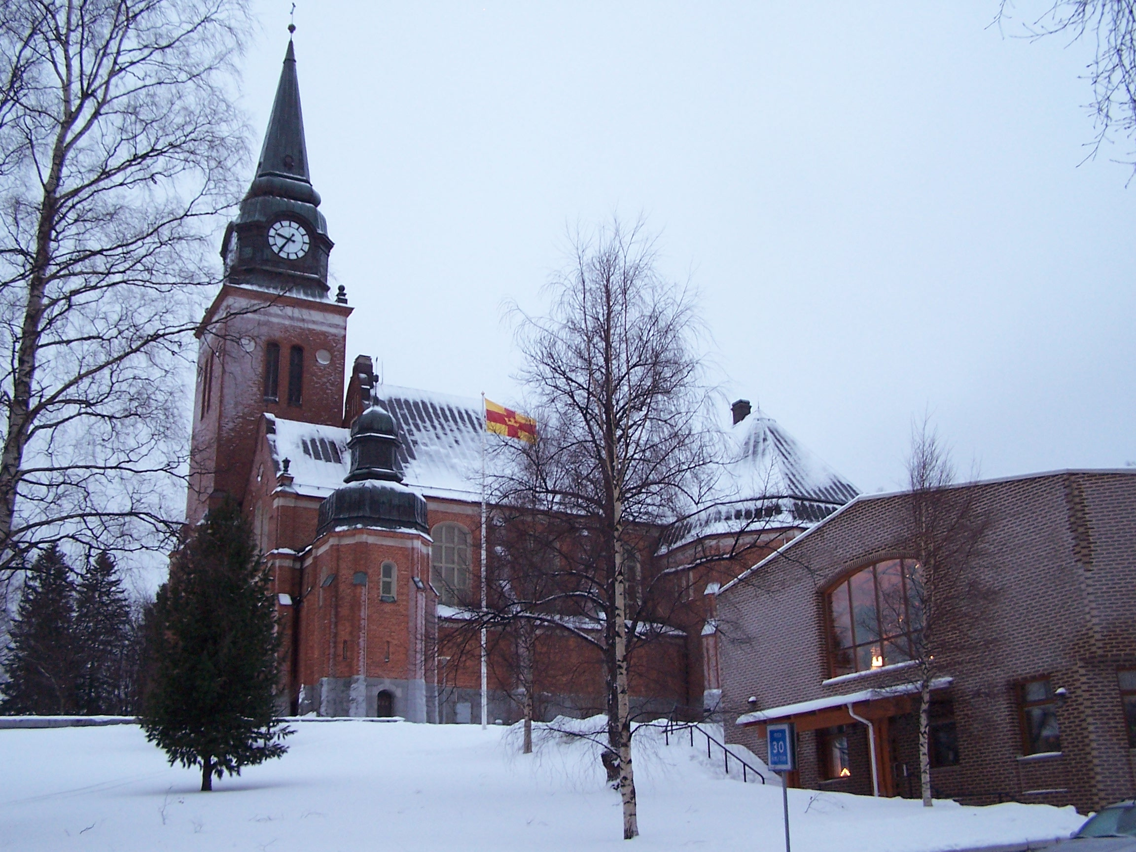 Örnsköldsvik church, Sweden